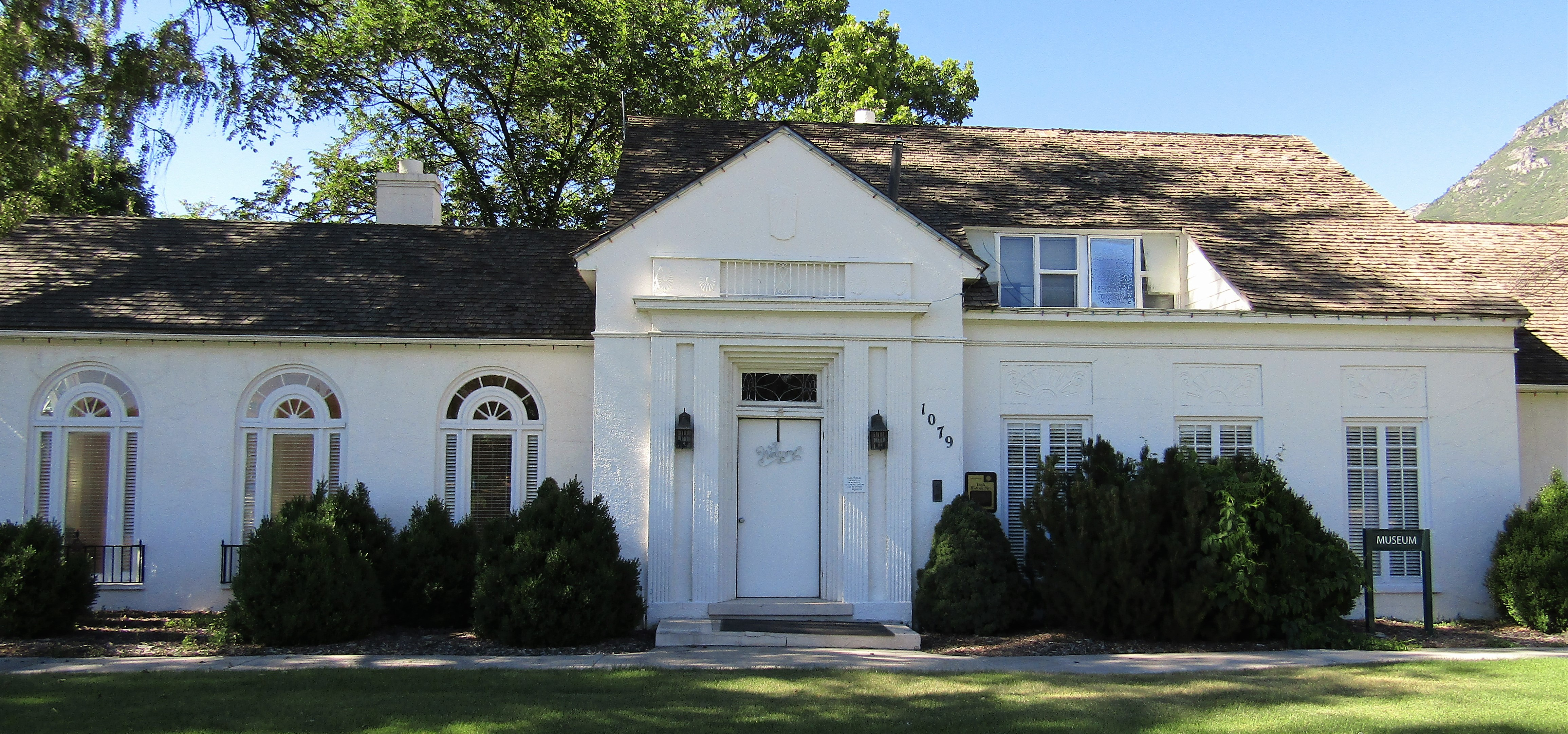 Museum on the west side of the Utah State Hospital campus.